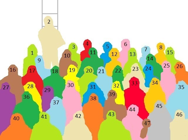 singers of the 60s